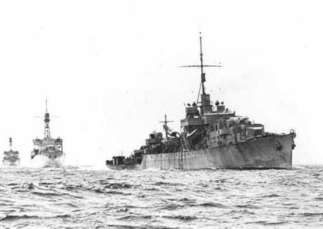 River class frigate HMCS Stonetown